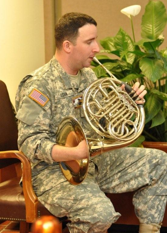 Spc. Anthony Licata plays the French horn during FORSCOM 2009 CFC Kick-Off Rally. Licata is a member of the FORSCOM Army Ground Forces Band's woodwind quintet. U.S. Army Photo by Jessica Maxwell, FORSCOM Public Affairs